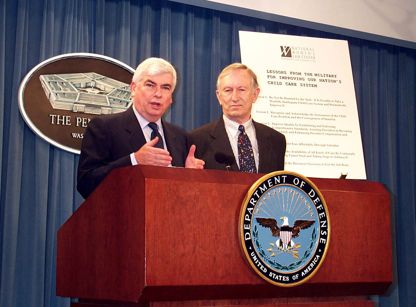 Senators Chris Dodd (left) and Jim Jeffords were on hand at the Pentagon to echo the National Women's Law Center's praise for DoD's child development program. The center May 16 presented Defense Secretary William Cohen with its report on military child care, which extols the program as a model for the nation. Dodd hailed DoD's program as the "gold standard." Jeffords pointed out that absenteeism caused by poor quality child care costs American businesses more than $3 billion a year.